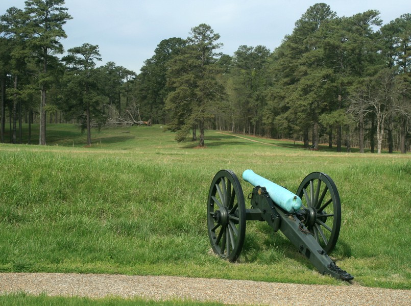 Union canon in fort Stedman